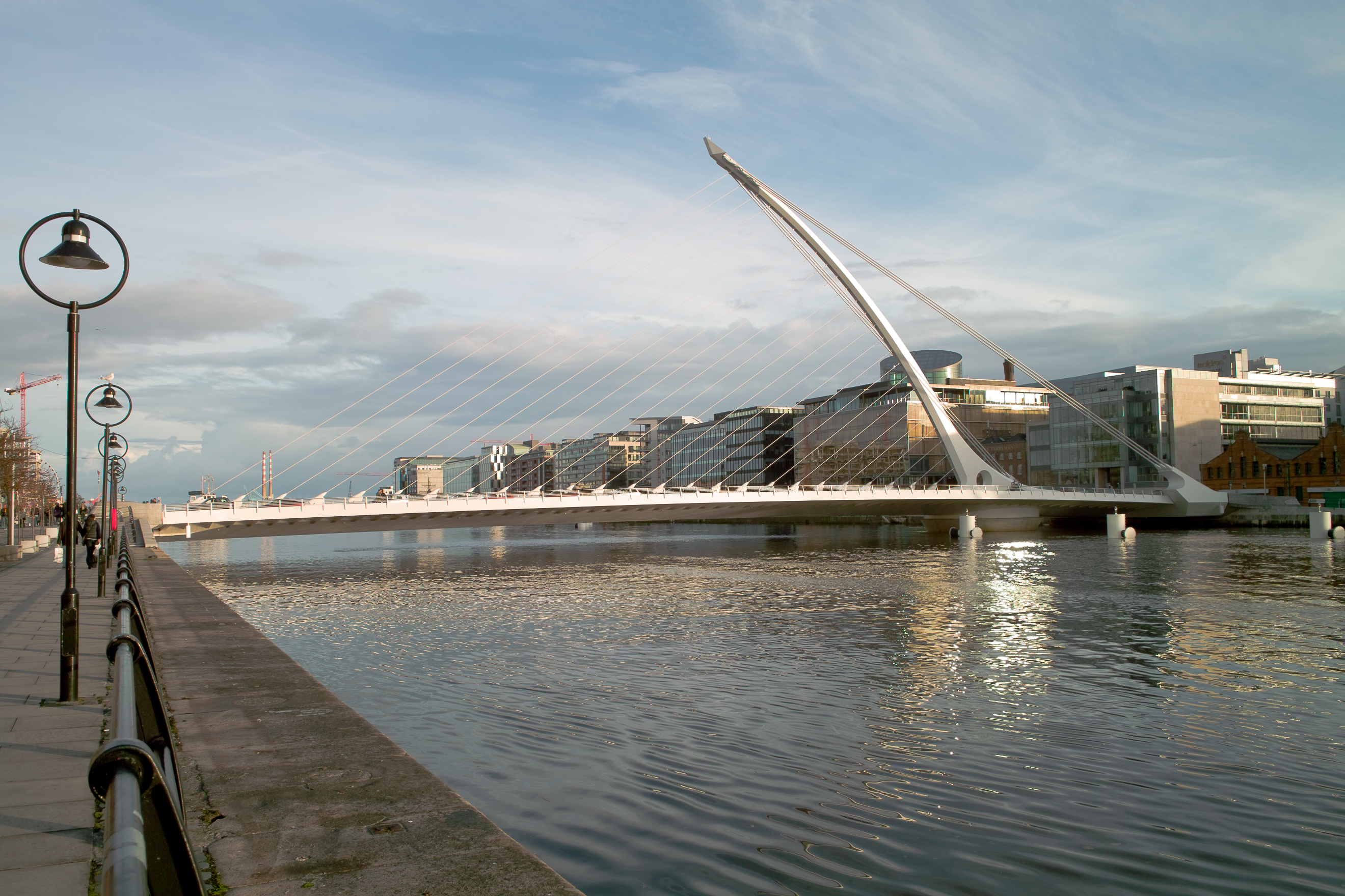 The Samuel Beckett Bridge